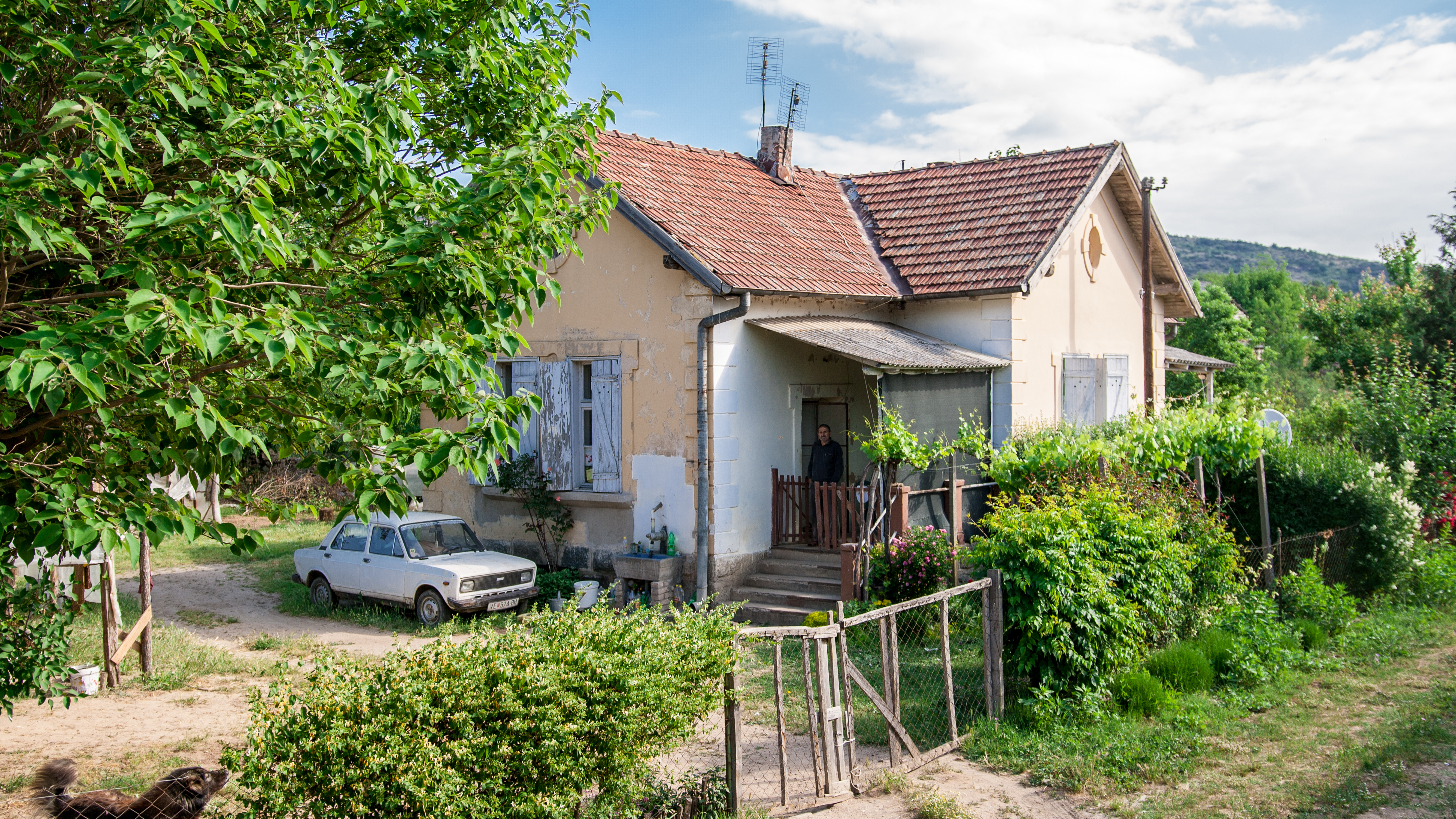 View of the Martolci train station